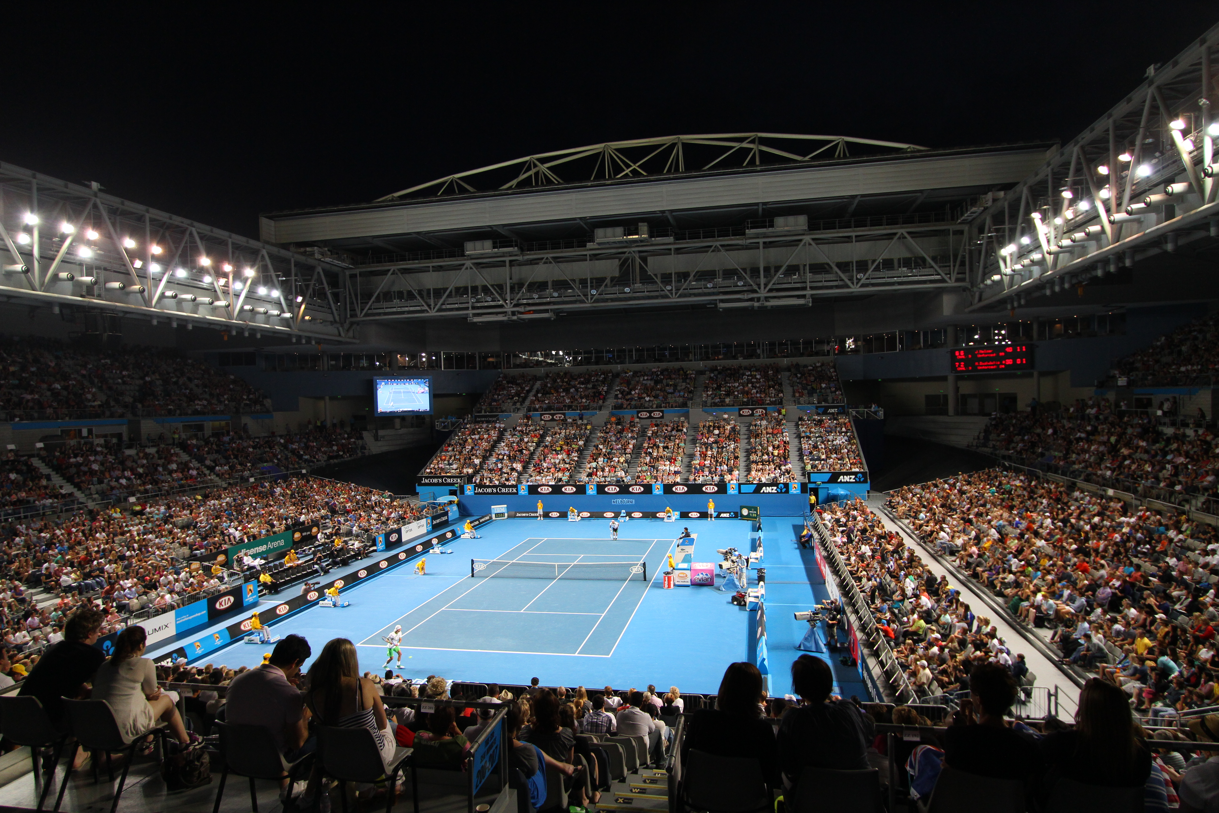 Hisense Arena (also known as the Melbourne Multi purpose Arena) hosting the Australian Open in 2011.